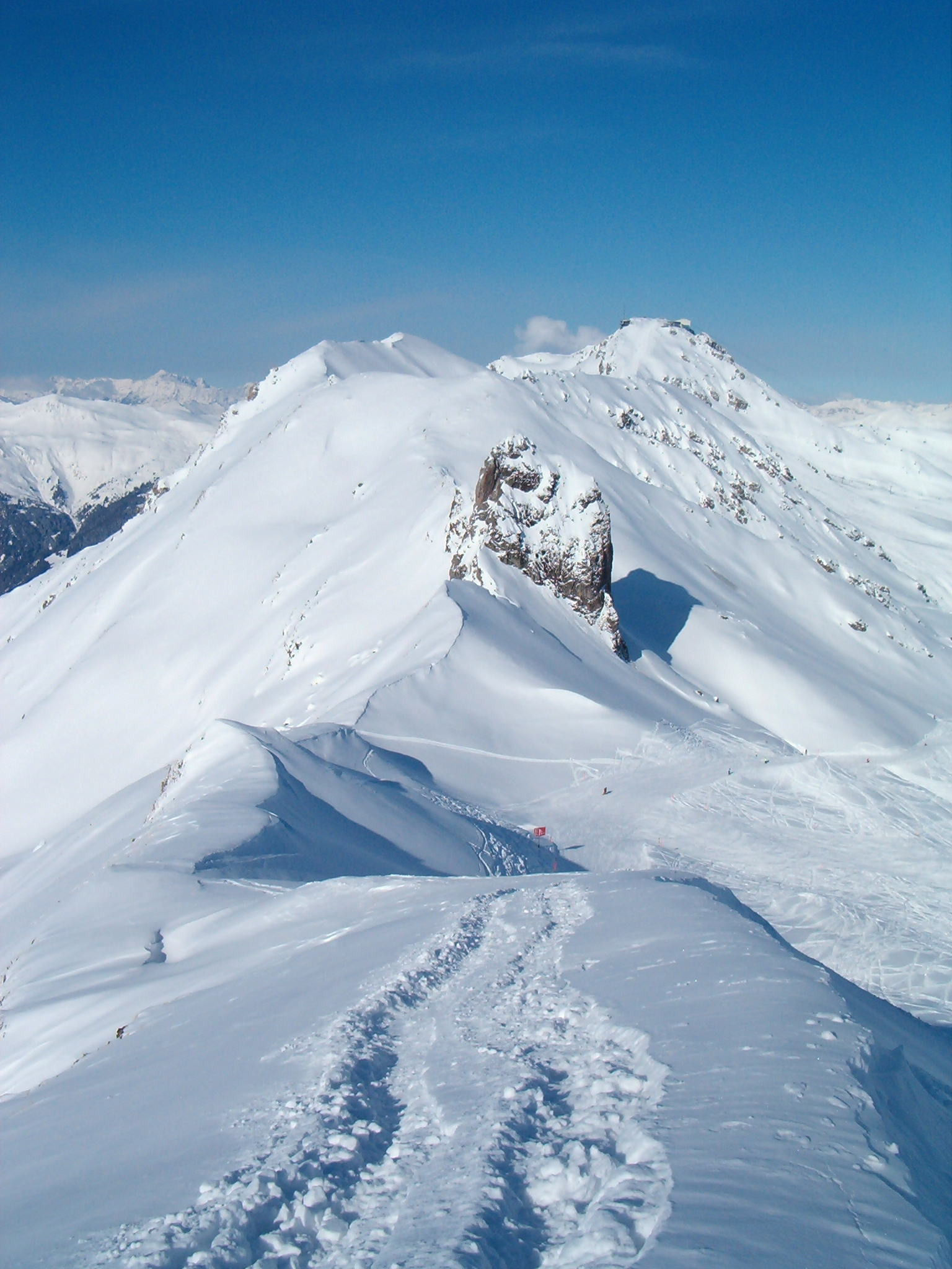 Hoernli Ridge with Hoernli Rock and Plattenhorn in Arosa/Switzerland